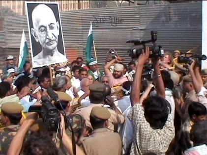 Janadesh struggle and cameras